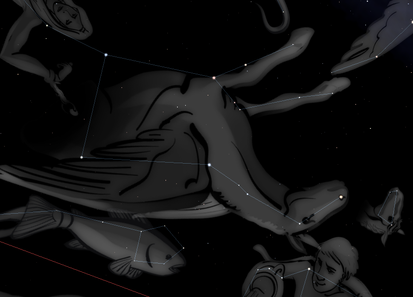 Constellation art : Pegasus. The red line is the ecliptic.